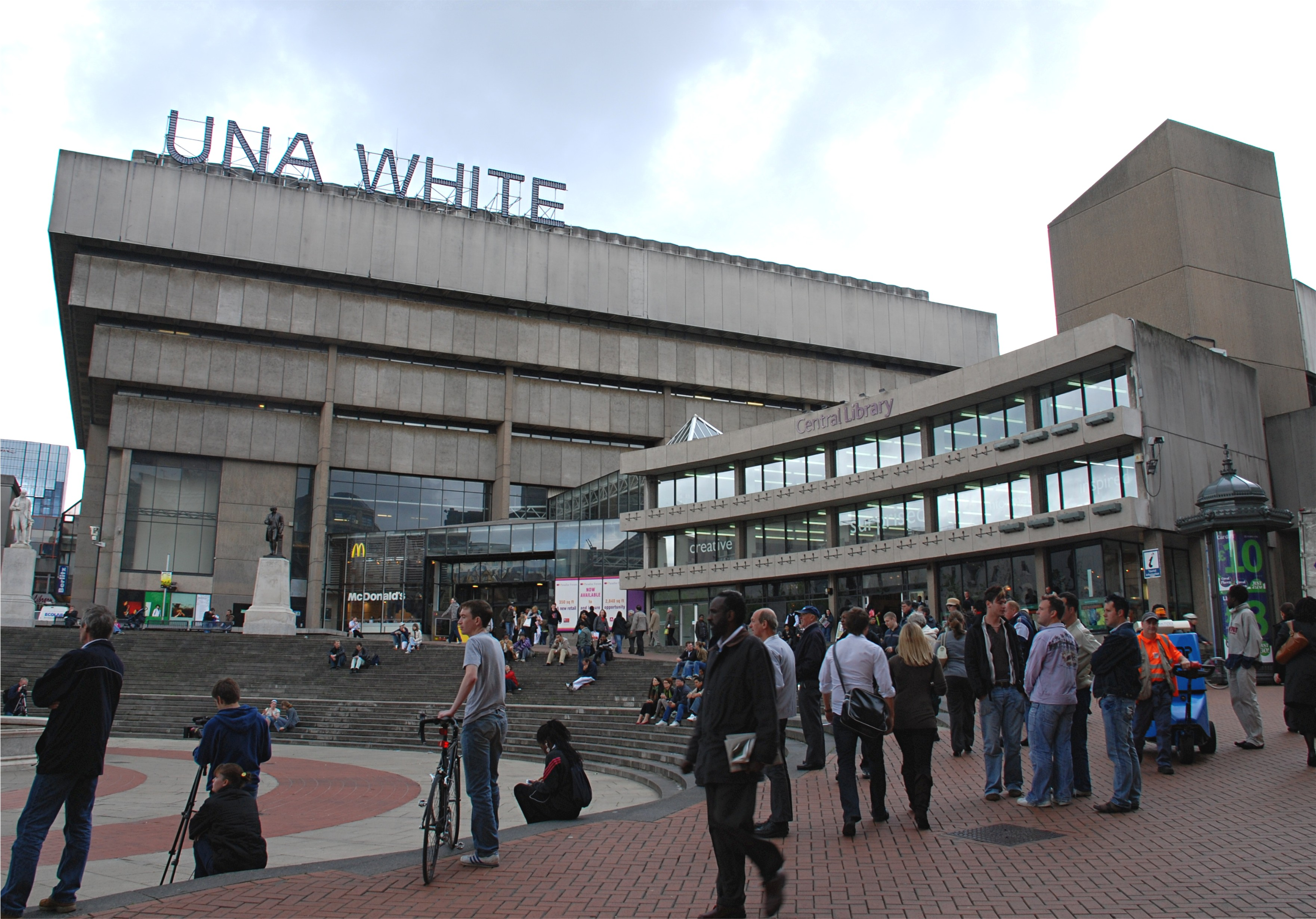 Una White memorial on the Birmingham Central Library. In Chamberlain Square of Birmingham, England.